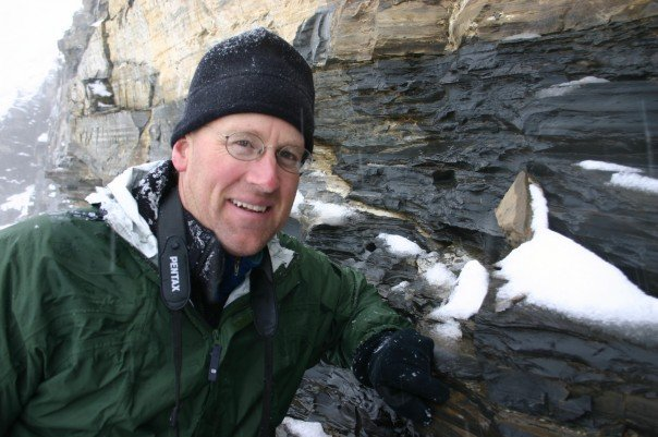 American Paleontologist, John R Foster, at the Burgess Shale in 2009